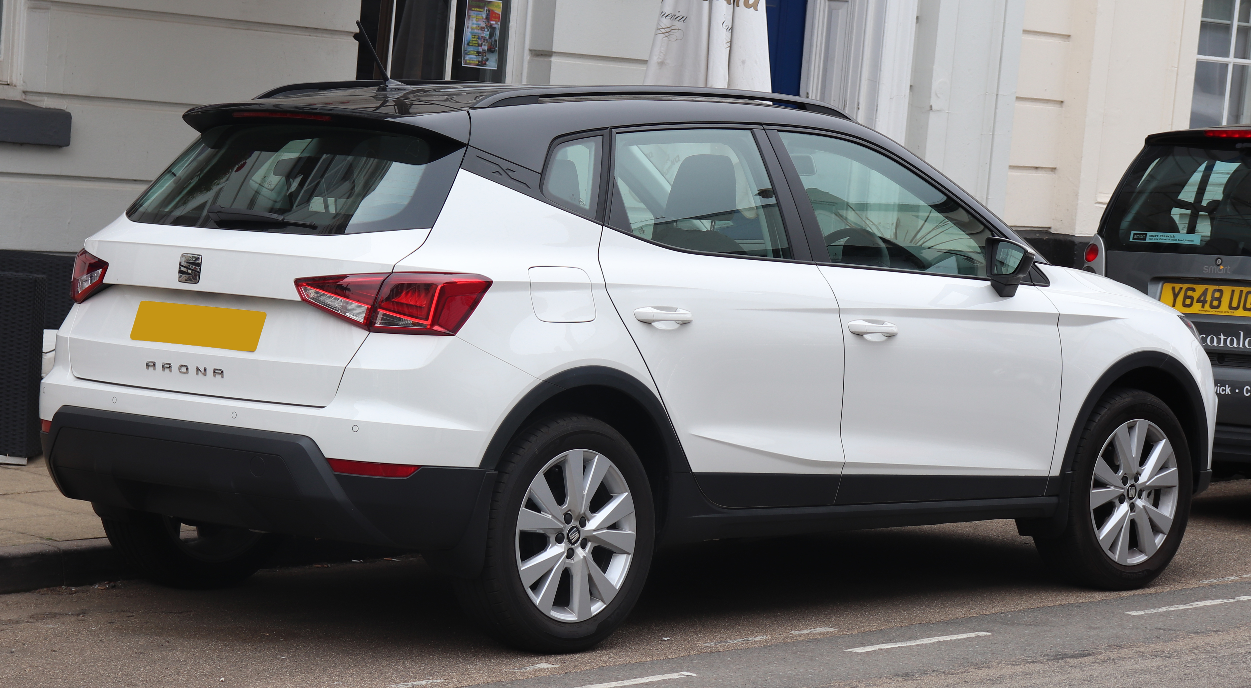 2018 SEAT Arona SE Technology TSi 1.0 Rear Taken in Warwick